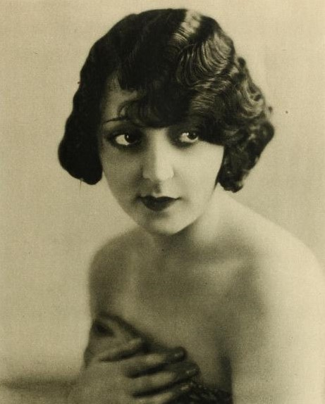 Publicity photo of Alma Bennett from Stars of the Photoplay. Alma Bennett was born in Seattle on April 9, 1904, and educated at San Francisco and Los Angeles. In 1919 she persuaded her parents to let her try to get into pictures. From "bits" her rise has been traced to an enviable position as lead with the Fox Productions. Tom Mix liked her work so well that he asked to have her play his leading woman in "Three Jumps Ahead." She recently signed a five year contract with Famous Players. She measures five feet, four inches in height, and weighs 118 pounds. She is not married.